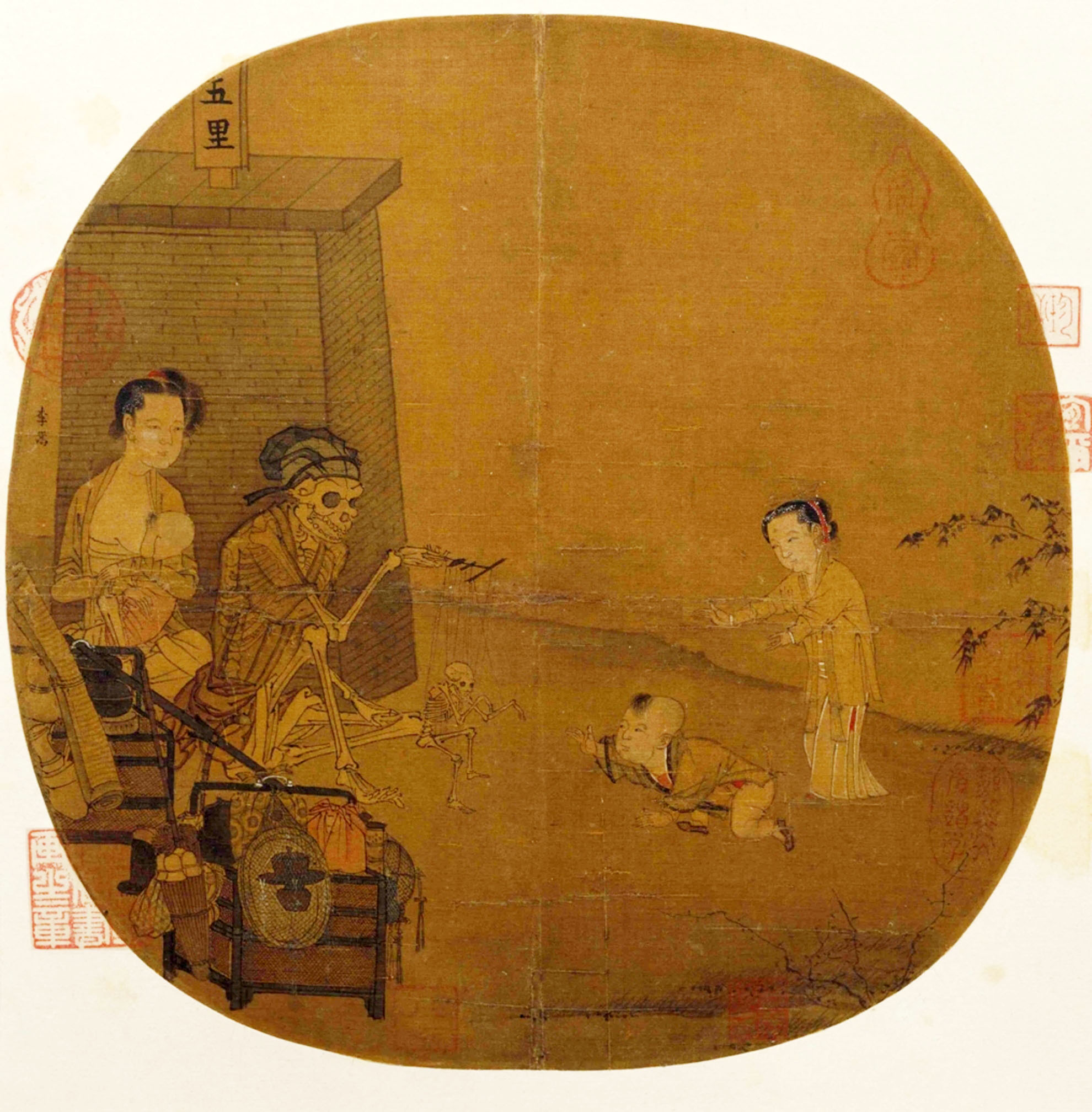 Skeleton Fantasy Show-leaf in book - ink and color on silk, 27 high x 26.3 wide cm. Located at the Palace Museum, Beijing.